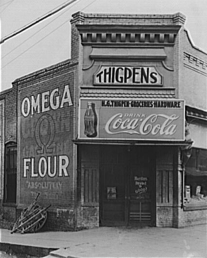 Thigpen's, Marion, Alabama, 1936. Photo of H.G. Thigpen Groceries & Hardware by Walker Evans